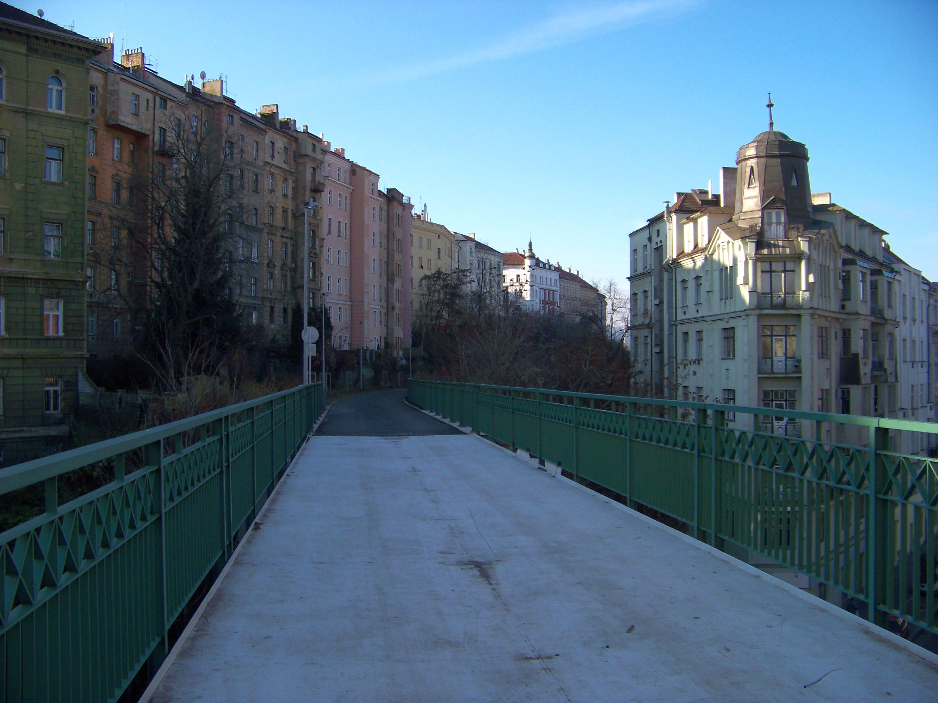 Prague-Žižkov.A bikeway on the former railway track Prague–Turnov, a bridge over Husitská street.